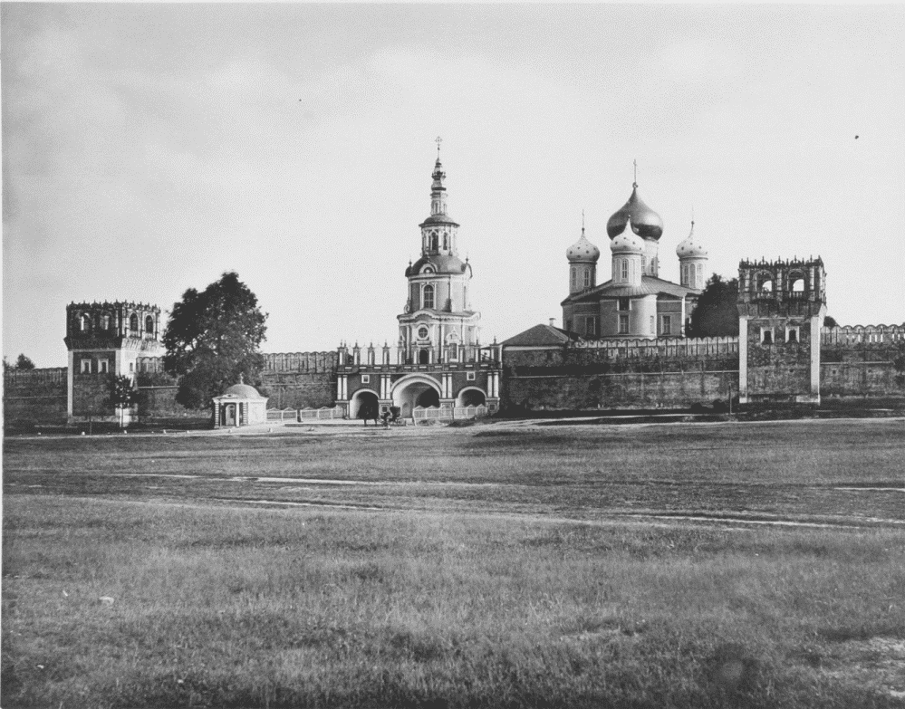 Donskoy monastery in Moscow